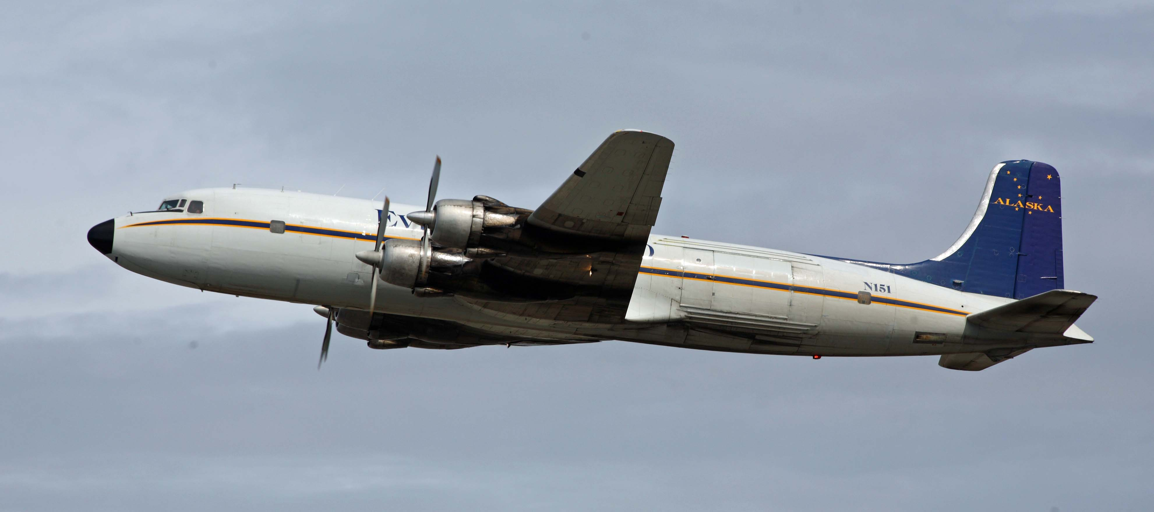 I took this photo at Anchorage International Airport in July 2011 while either working on crossword puzzles, planning travel trips or menus, or bike riding past the airport. I'm always amazed what goes on at our airport - great place to idle the time away!